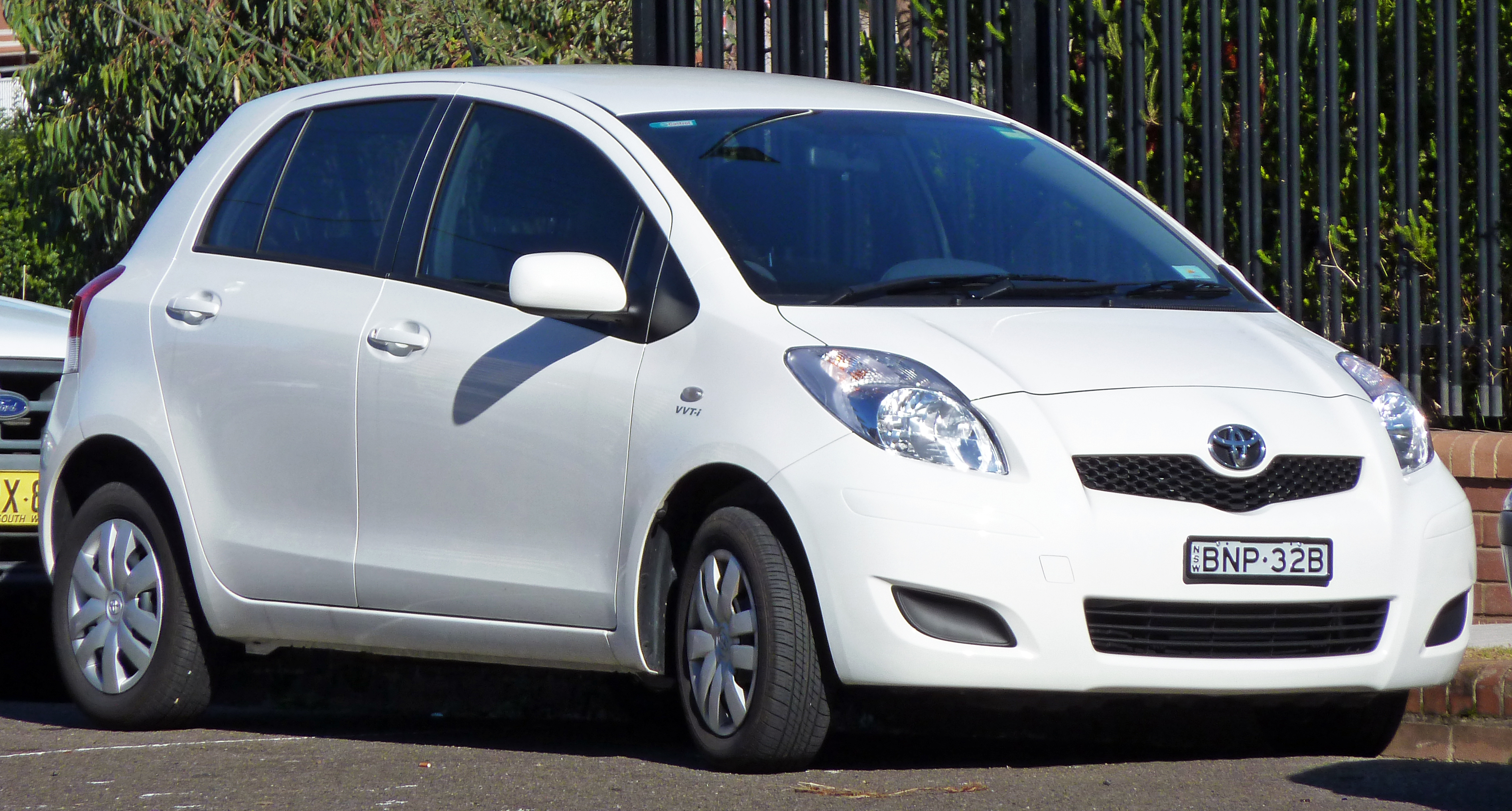 2008–2010 Toyota Yaris (NCP90R) YR 5-door hatchback. Photographed in Cronulla, New South Wales, Australia.